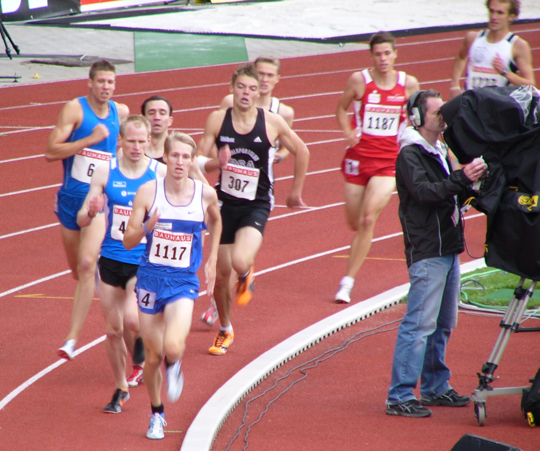 800m at the 2011 German Athletics Championships in Kassel: Martin Bischoff (No 1117), Sören Ludolph (second position), Christian Meisel (No. 6), Jan Riedel (No. 307)